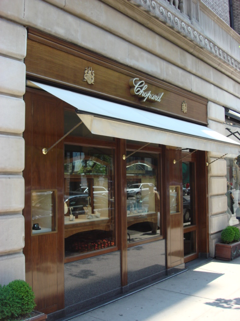 Chopard shop in the madison avenue New York